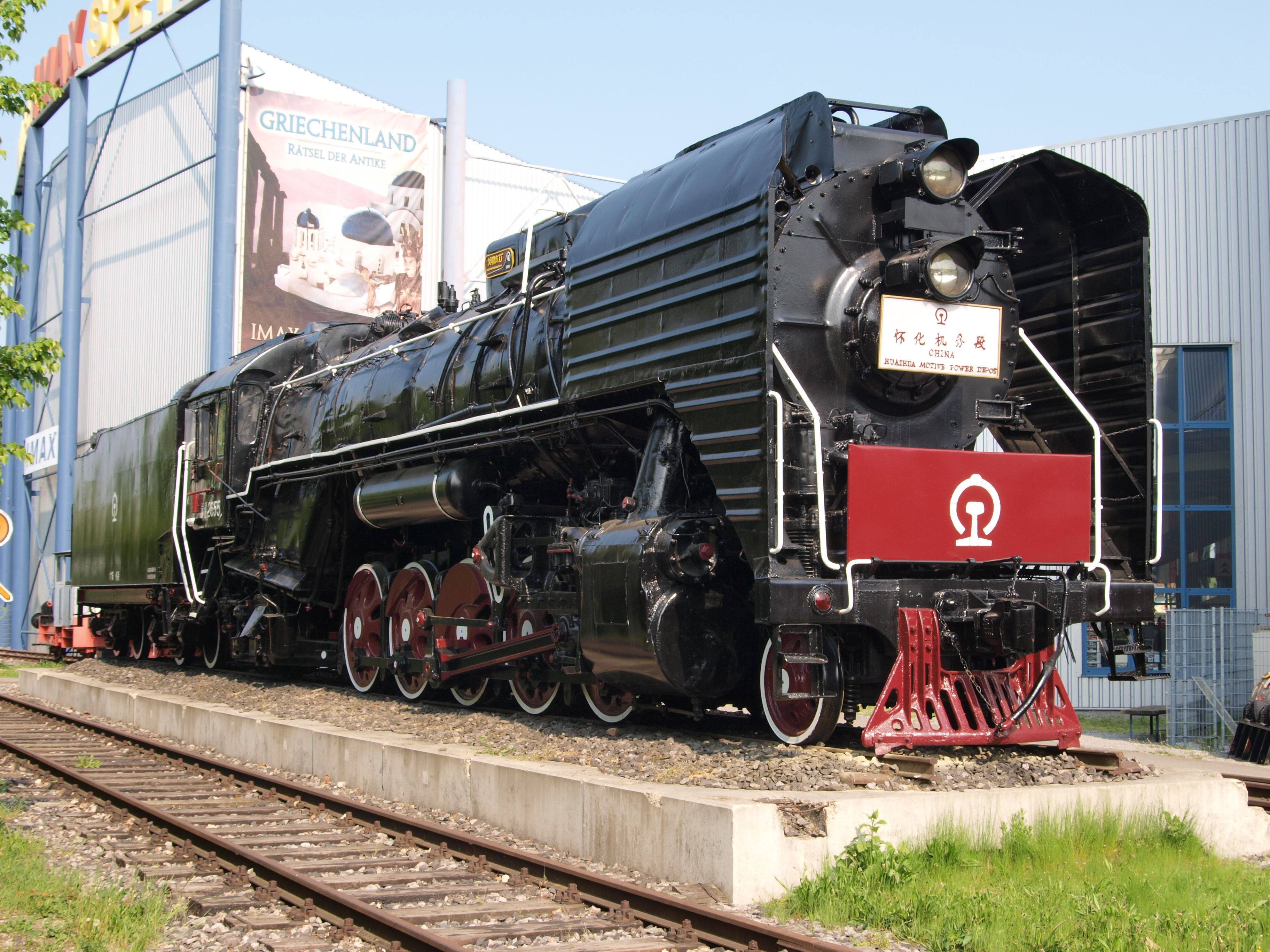 team locomotive China Huaihua Motive Power Depot